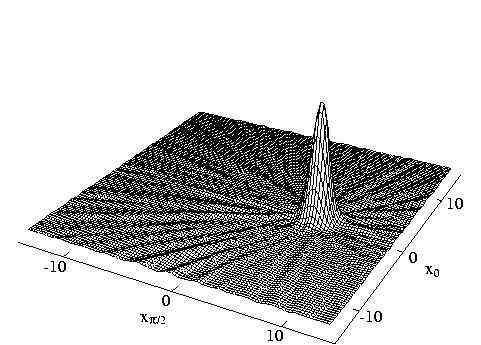 measured Wigner function of a coherent state